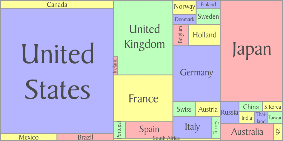 Drawn by Steve Hawtin based on widely quoted data from IFPI.